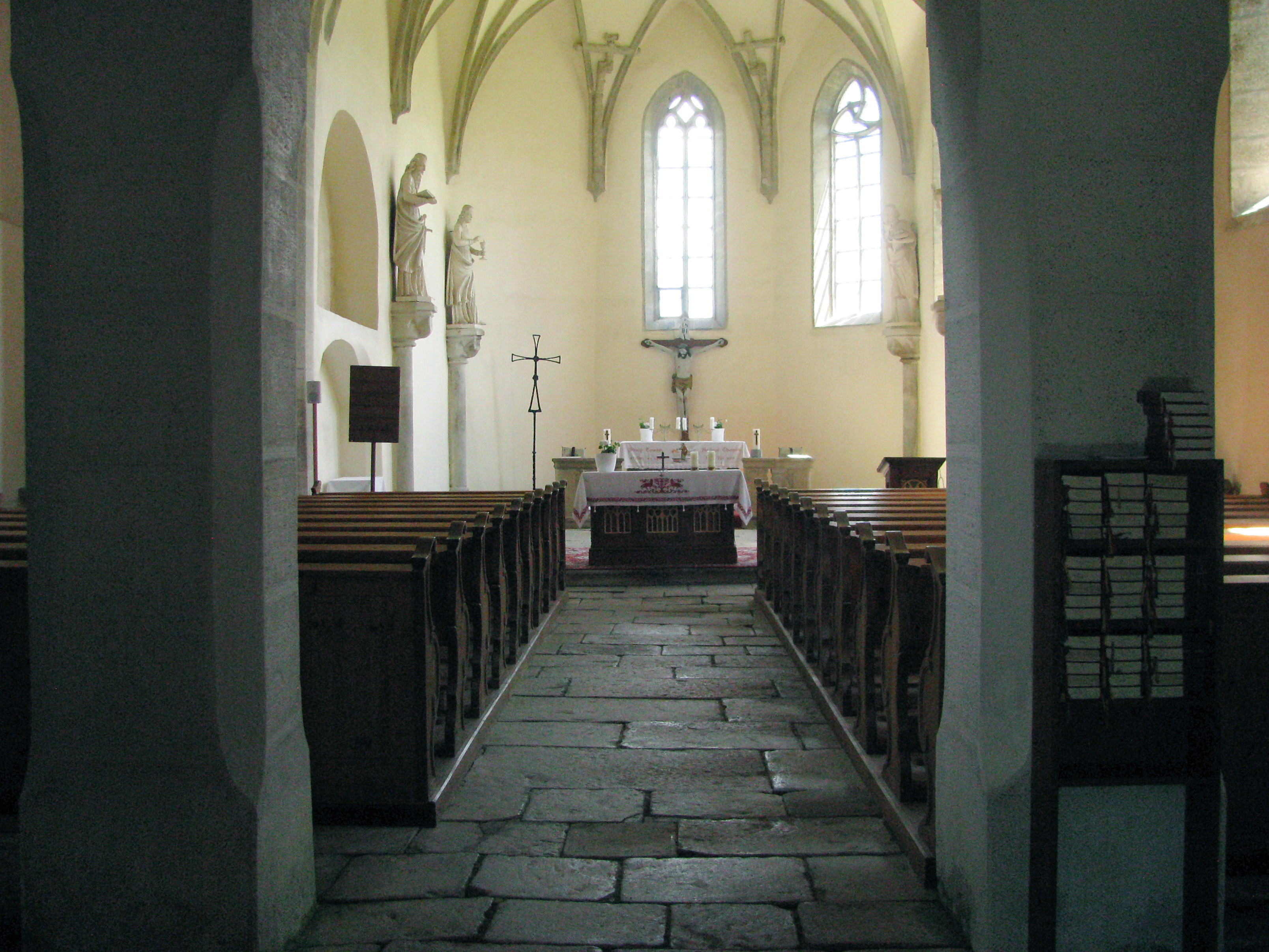 Church of Corpus Christi in Svatý Tomáš